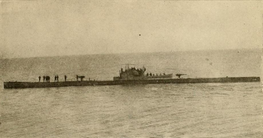 Remarkable photograph of German Submarine U-65, terror of the sea, in act of holding up Liner. This is probably the only photograph showing a German U-boat actually holding up a liner at sea. Taken from "The people's war book; history, cyclopaedia and chronology of the great world war" 1919, page 137.